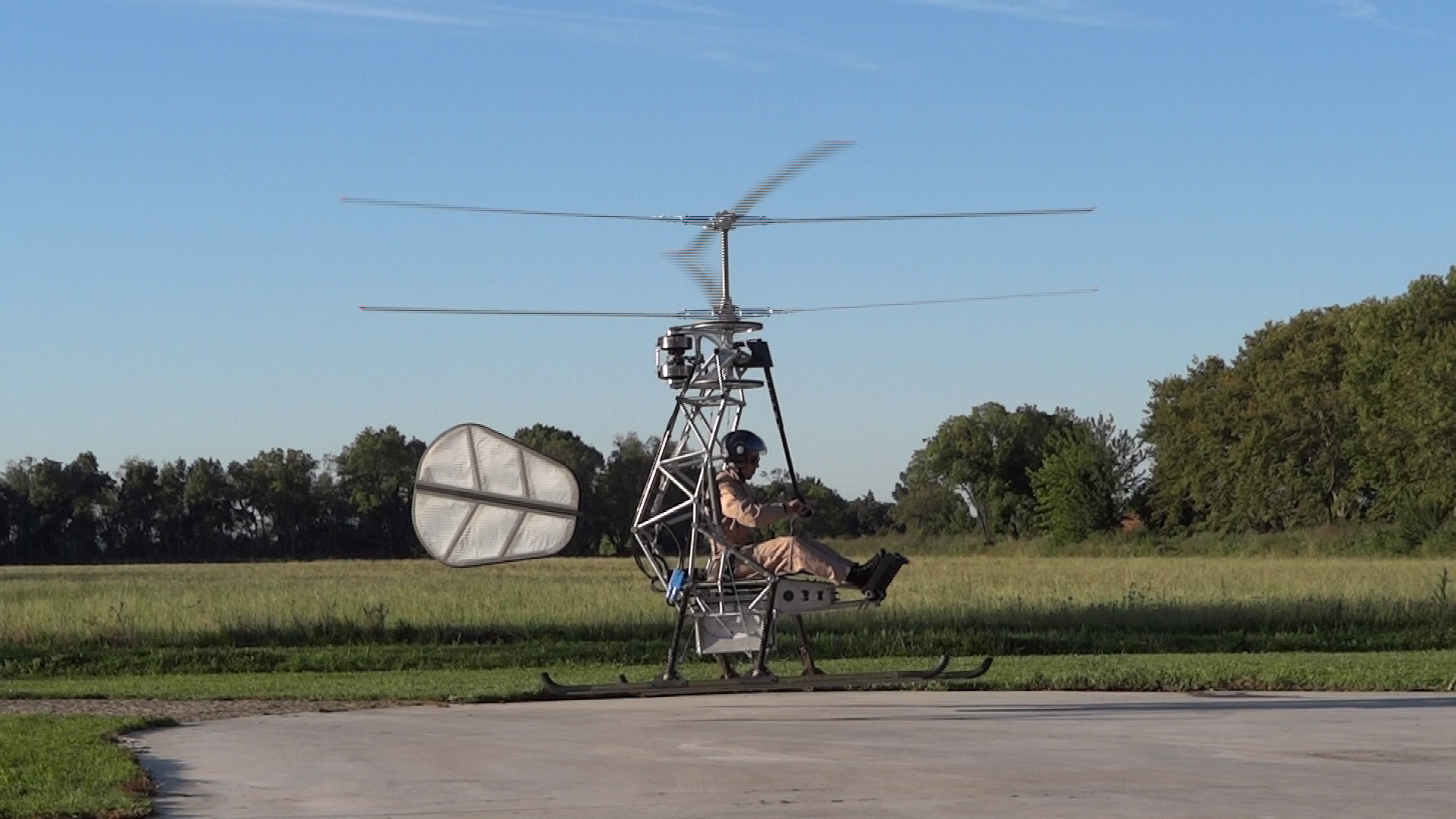 World's First manned electric helicopter Hover side view